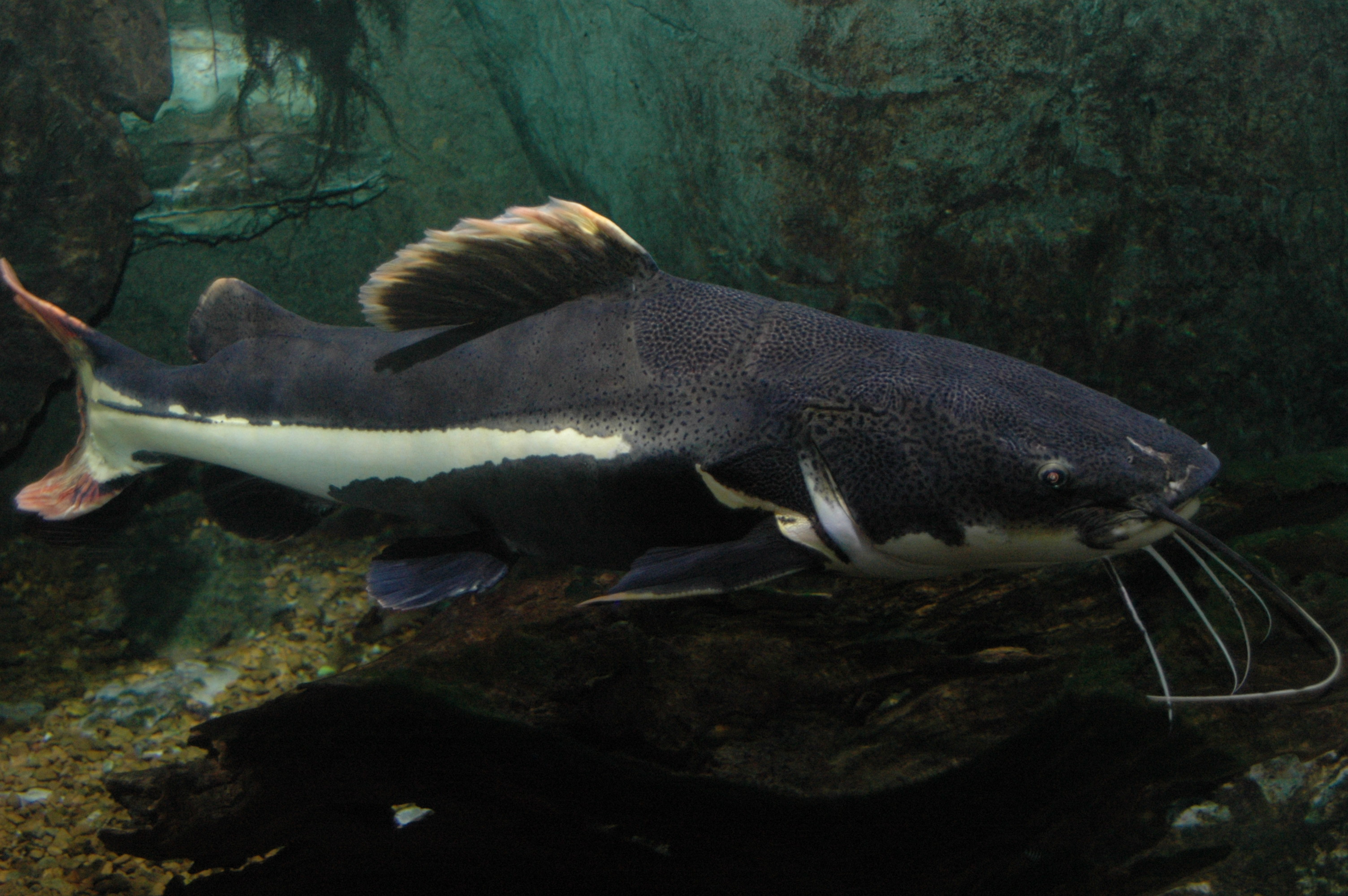 Phractocephalus hemioliopterus; taken in Nashville, Tennessee